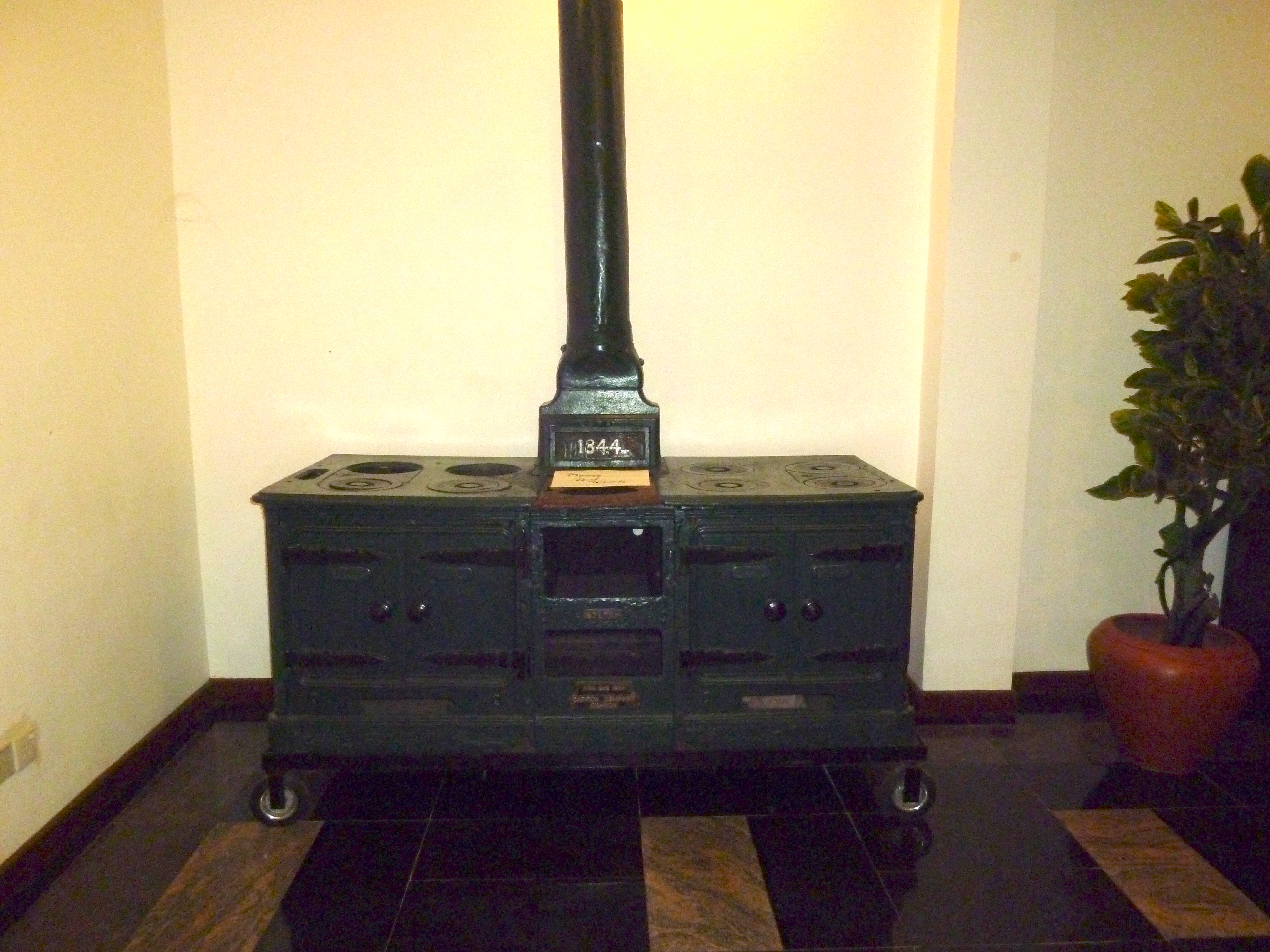 An Iron Oven manufactured by Carron Company Scotland (ITEM 202 1844/Carron Company Carron)